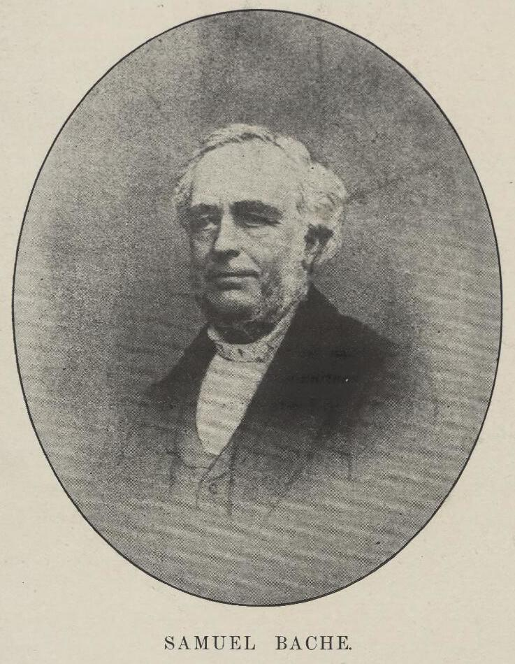 A portrait from the Welsh Portrait Collection at the National Library of Wales. Depicted person: Samuel Bache – English Unitarian minister